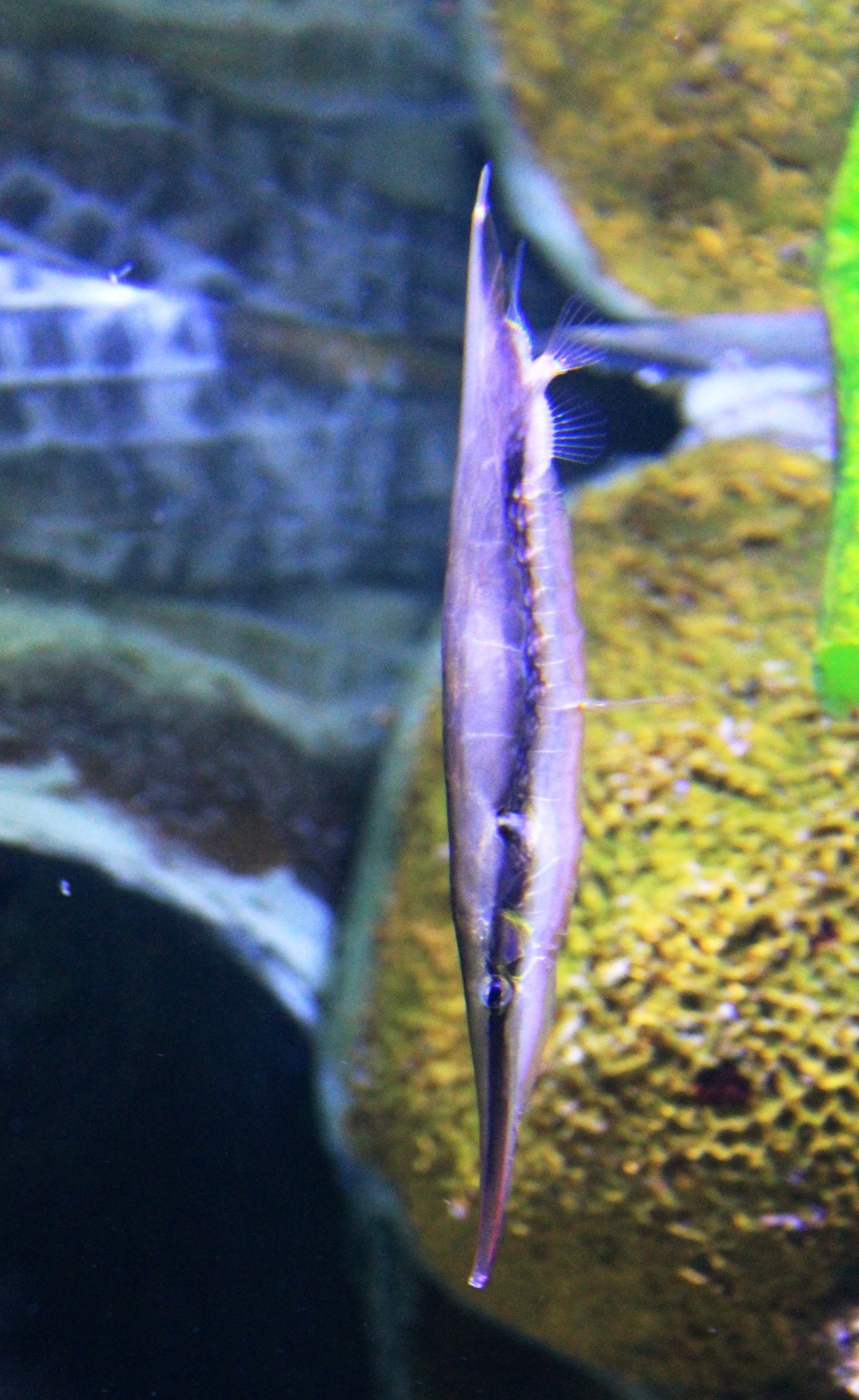 Fish Aeoliscus strigatus, (Aeoliscus strigatus) in Prague sea aquarium “Sea world”, Czech Republic